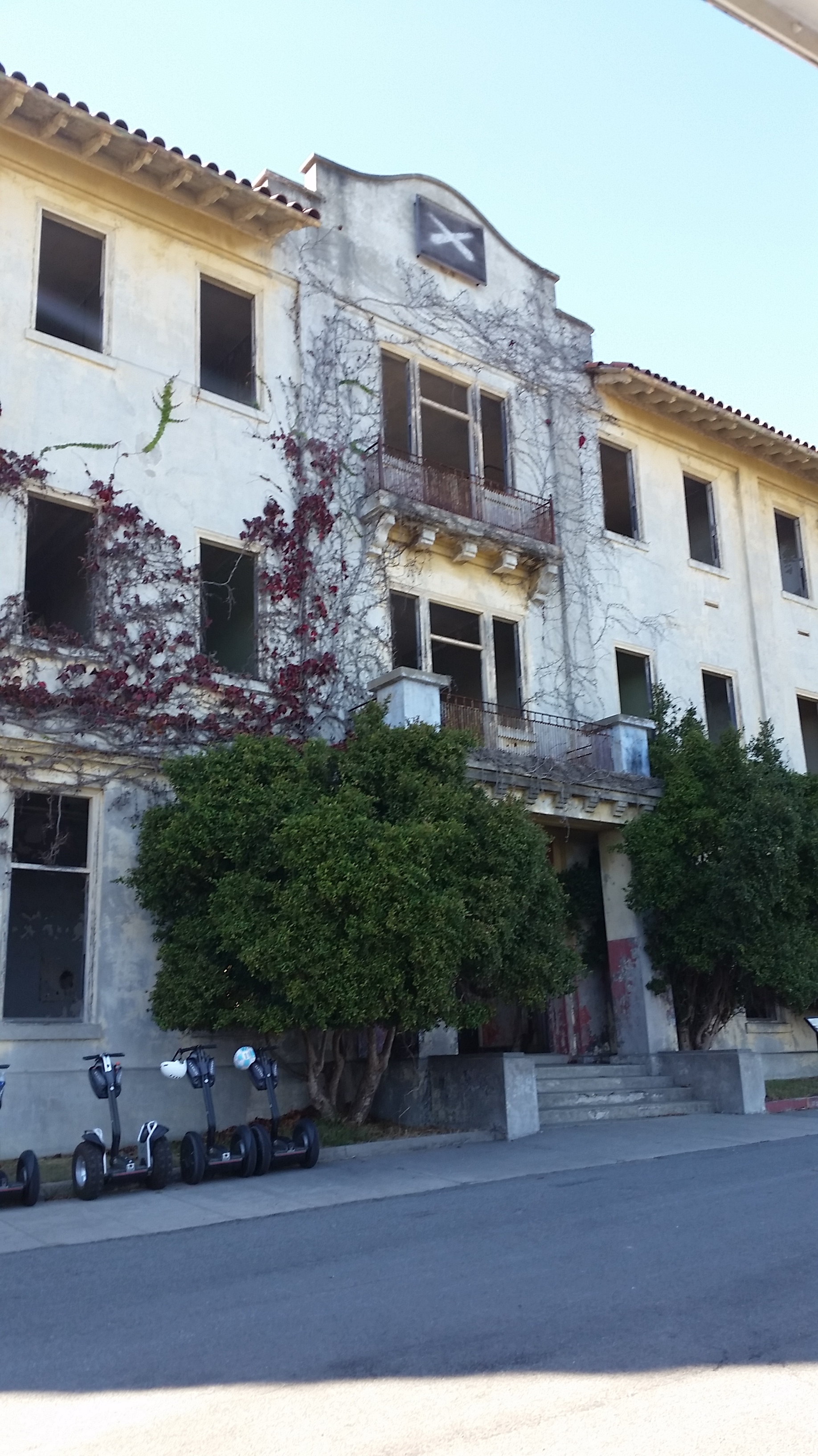 Fort McDowell Post Hospital